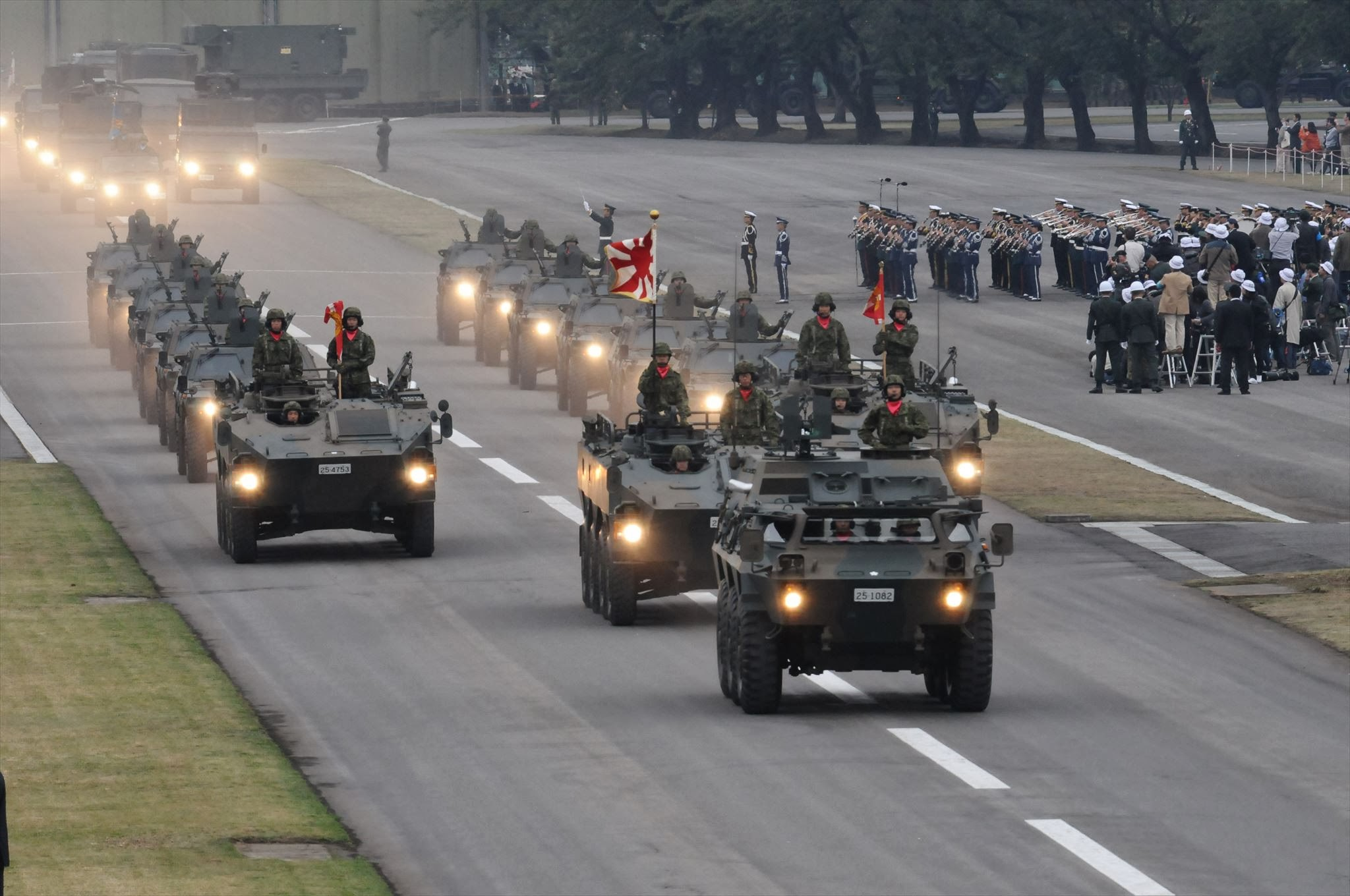 Title 13_01_021_R.JPG Album 自衛隊記念日 観閲式(Parade of Self-Defense Force) 平成22年度自衛隊記念日 観閲式(Parade of Self-Defense Force)